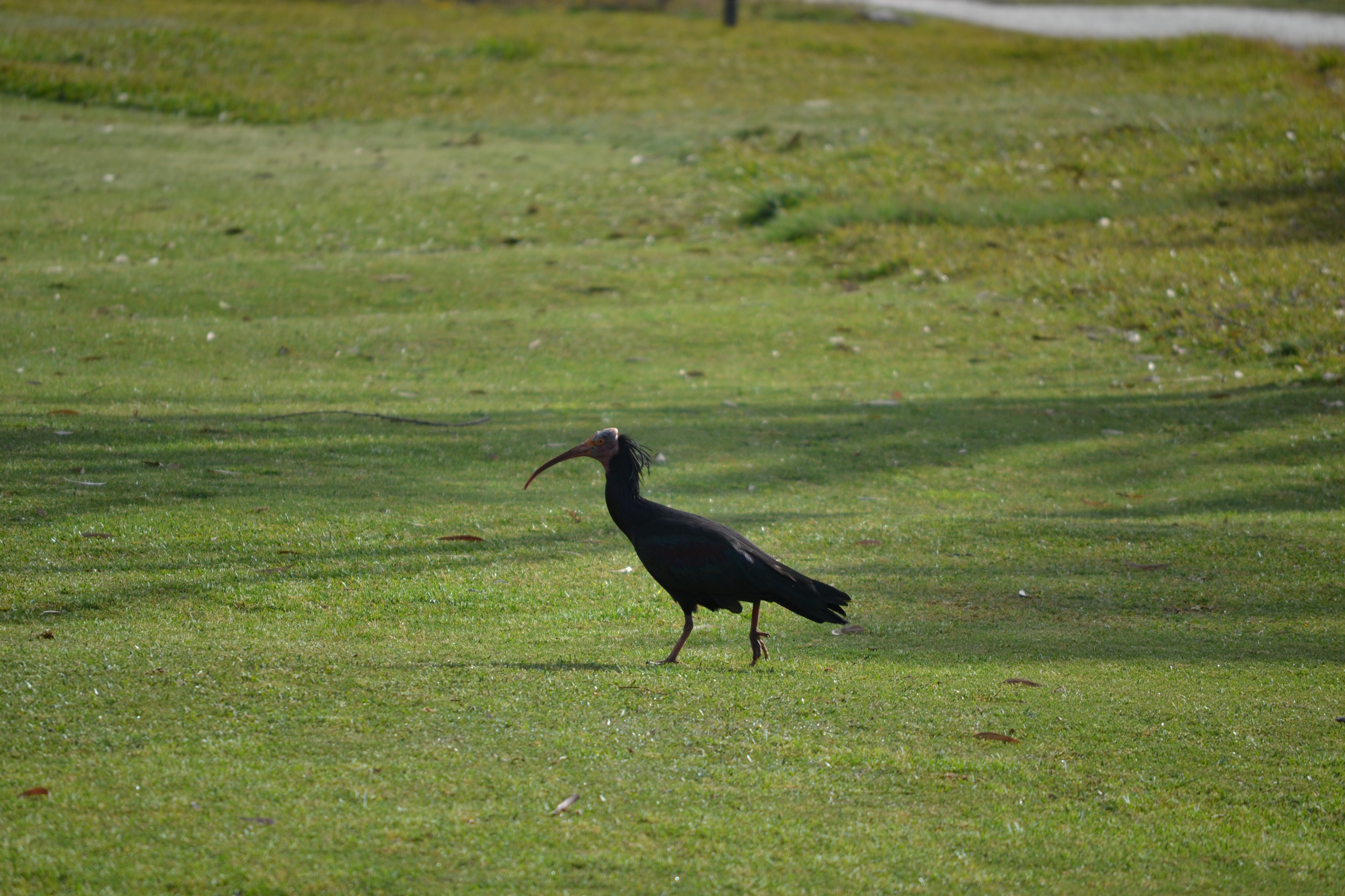 Northern bald ibis or waldrapp (Geronticus eremita) walks on the green of a Malaga golf course in Spain.